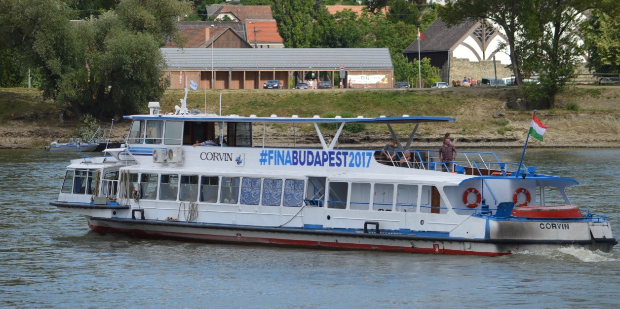 The CORVIN (type Moskva) ship on the Danube in Nagymaros